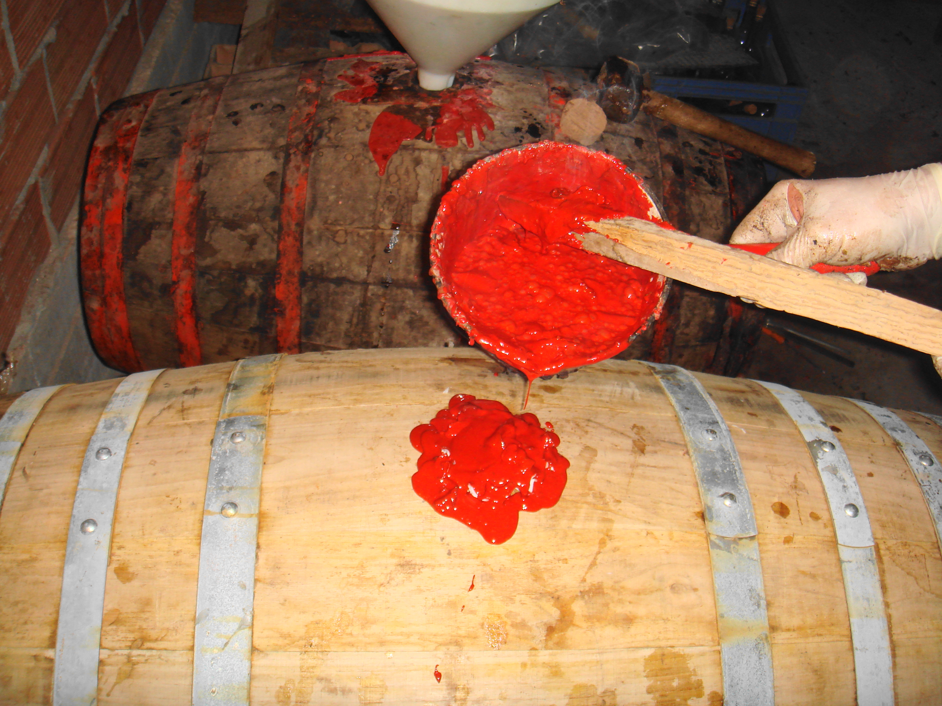 From author "In December is time to press white grapes "Trebbiano" to make a sweet wine Vin Santo to save in the barrels for 4 years."